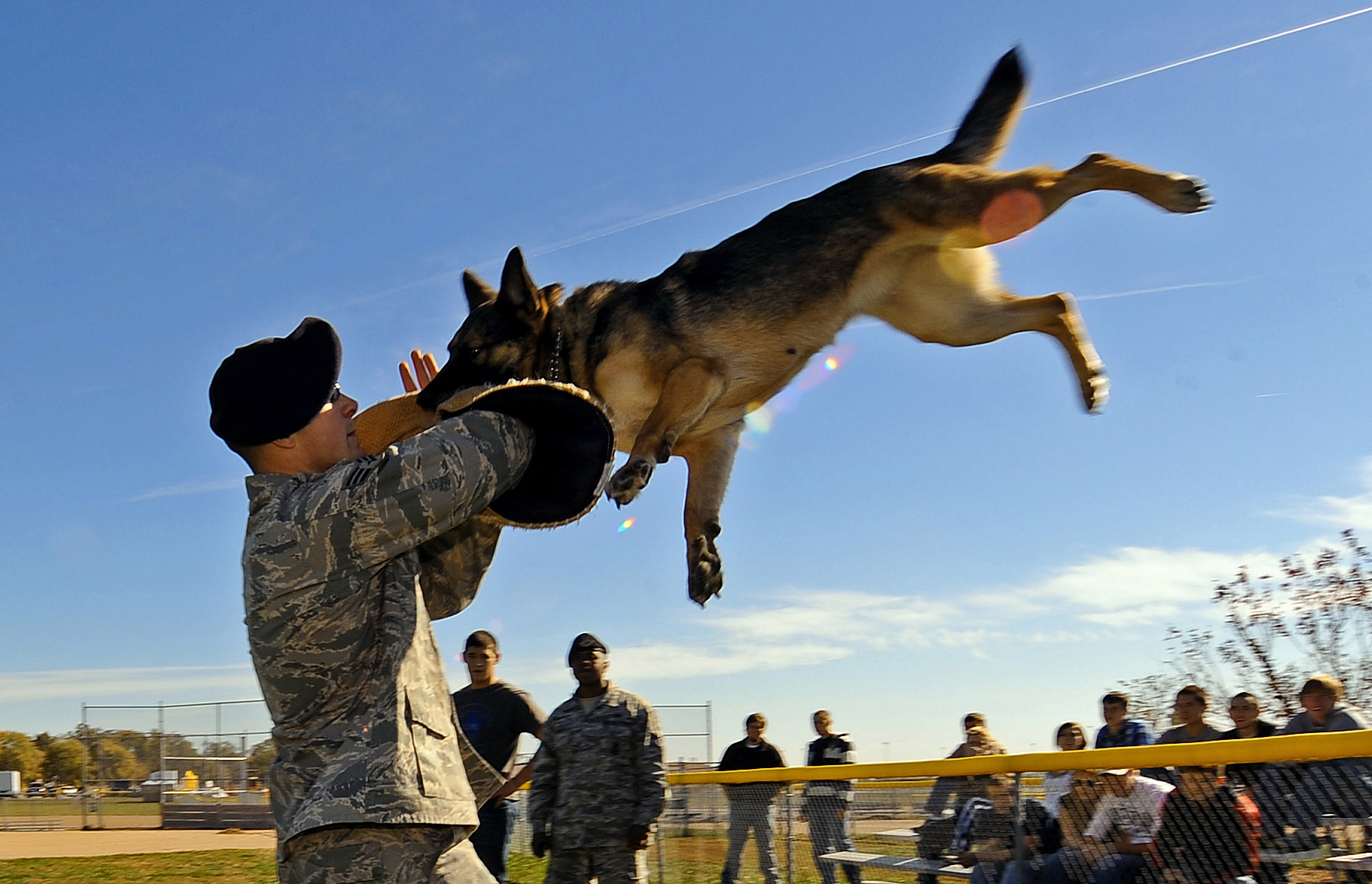 U.S. Air Force Senior Airman Steve Hanks, a military working dog handler with the 55th Security Forces Squadron, hoists Ada up in the air after she clamped down on a bite sleeve as part of a working dog demonstration Oct. 20, 2010, at Offutt Air Force Base, Neb. The demonstration was part of a base tour for high school and college students ready to enlist in the Air Force.